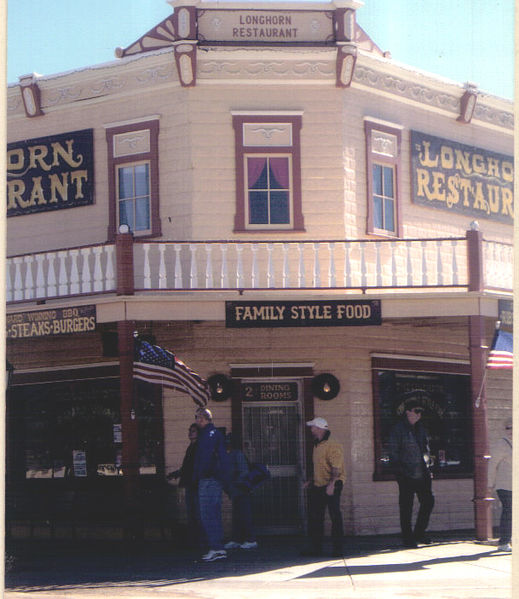 The Longhorn restaurant, the oldest continually operated restaurant in Tombstone. An historical building, The Longhorn Restaurant is located in what used to be the Bucket of Blood Saloon References for this description (or part of this) or for the depiction in the file are not provided. , the Holiday Water Company, and the Owl Cafe and Hotel. Virgil Earp was shot from the second floor.[1] This property is located within the Tombstone Historic District listed in the National Register of Historic Places, ref: 66000171